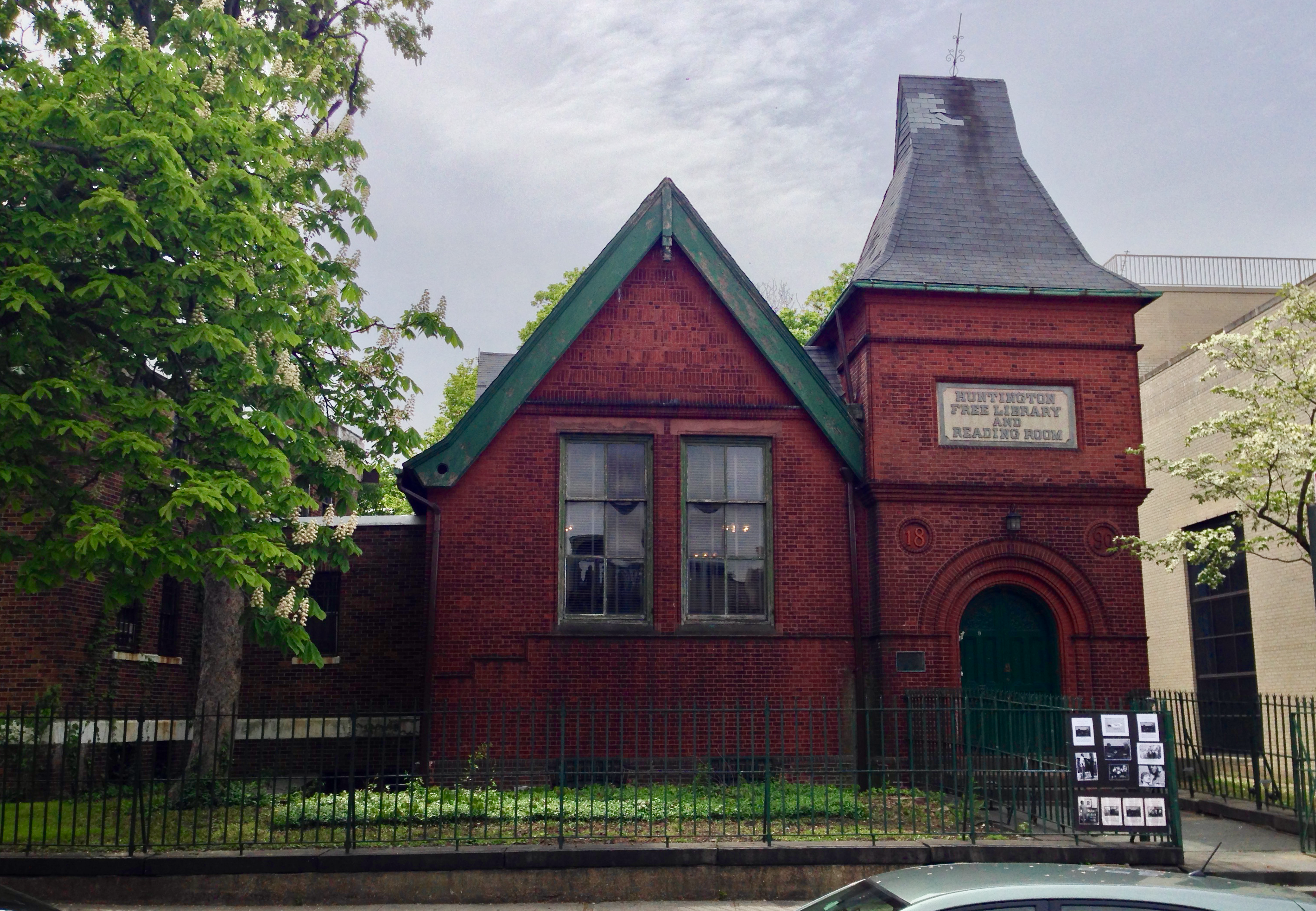 Huntington Free Library and Reading Room in Westchester Square, Bronx, NY - front view